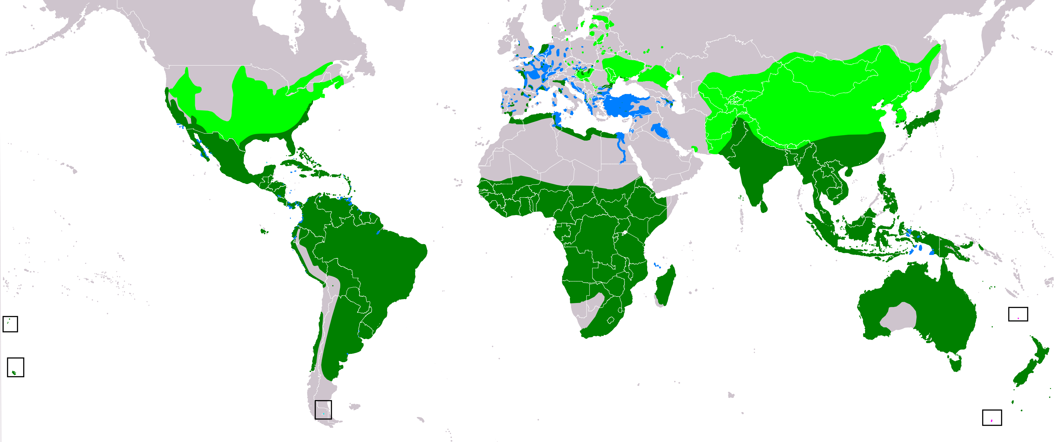 The distribution map of great egret (Ardea alba) according to IUCN verson 2019.1; key: Legend: Extant, breeding (#00FF00), Extant, resident (#008000), Extant, passage (#00FFFF), Extant, non-breeding (#007FFF), Extant & Vagrant (seasonality uncertain) (#FF00FF), Extant (seasonality uncertain) (#F4A460)